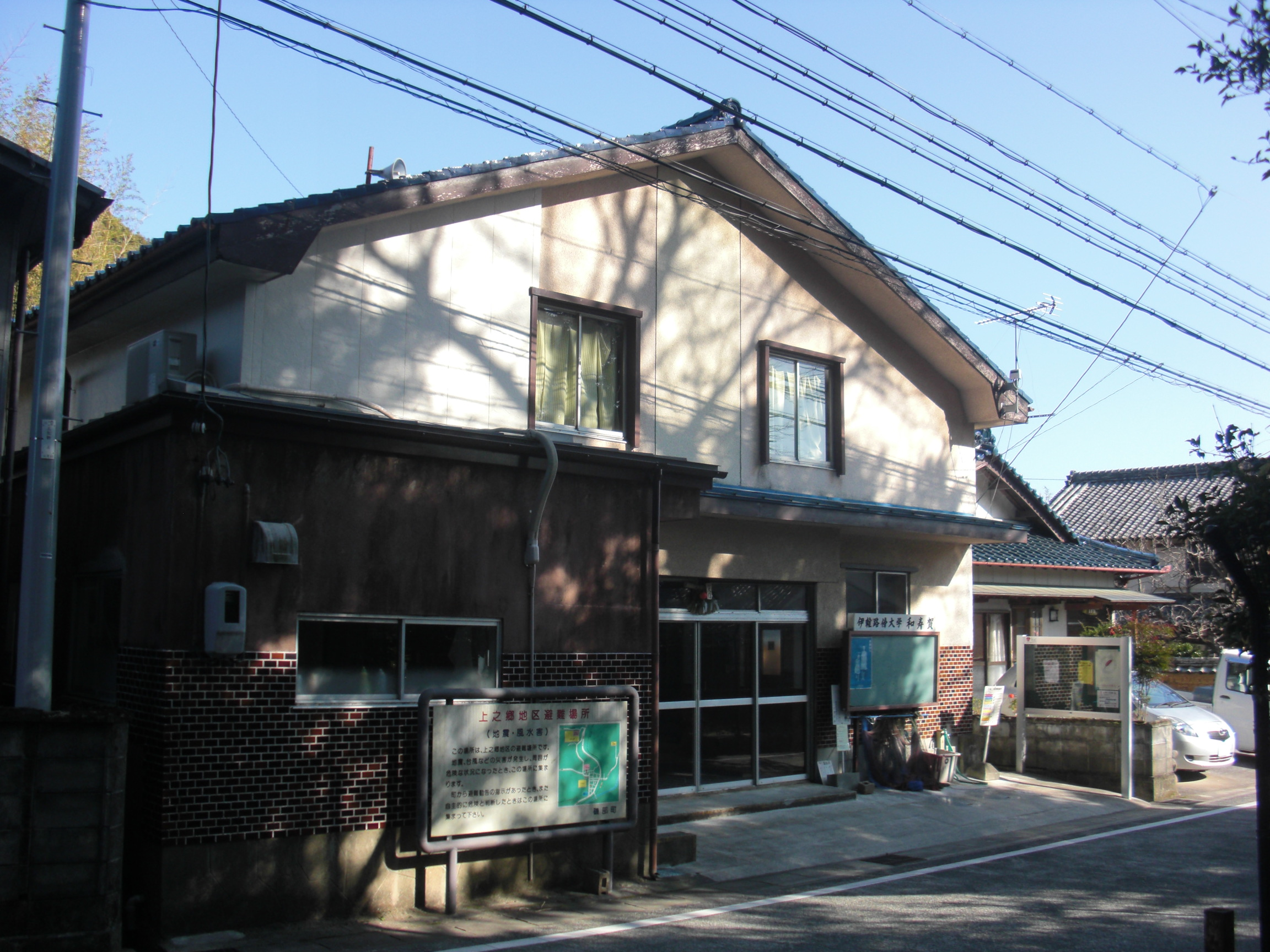 This is the Kaminogo Community Center in Isobecho-Kaminogo, Shima city, Mie prefecture, Japan.